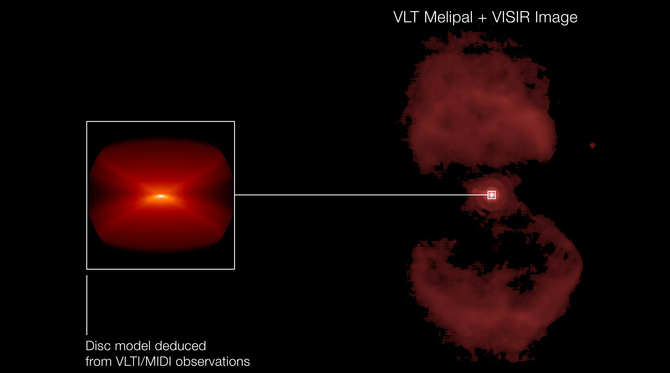 Using ESO's Very Large Telescope Interferometer, astronomers have uncovered a disc in the heart of the Ant Nebula. The disc seems, however, too 'skinny' to explain how the nebula got its intriguing ant-like shape. The image on the right shows a previously taken image of the Ant Nebula, in the mid-infrared, with the VLT Imager and Spectrometer for the mid-InfraRed (VISIR). The image on the left shows a model of the dusty disc the astronomers uncovered with the MID-infrared Interferometric instrument (MIDI), which combined the light from two 8.2-m VLT Unit Telescopes. The lower part of the image representing the southern lobe is brighter, for this lobe is closer to our line-of-sight. The major axis of the flat, nearly edge-on disc is perpendicular to the axis of the bipolar lobes of the nebula. The disc extends from about 9 times the mean distance between the Earth and the Sun (9 Astronomical Units or 9 AU) to more than 500 AU.